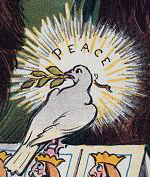 Cover of american humor magazine Puck at 20 January 1904